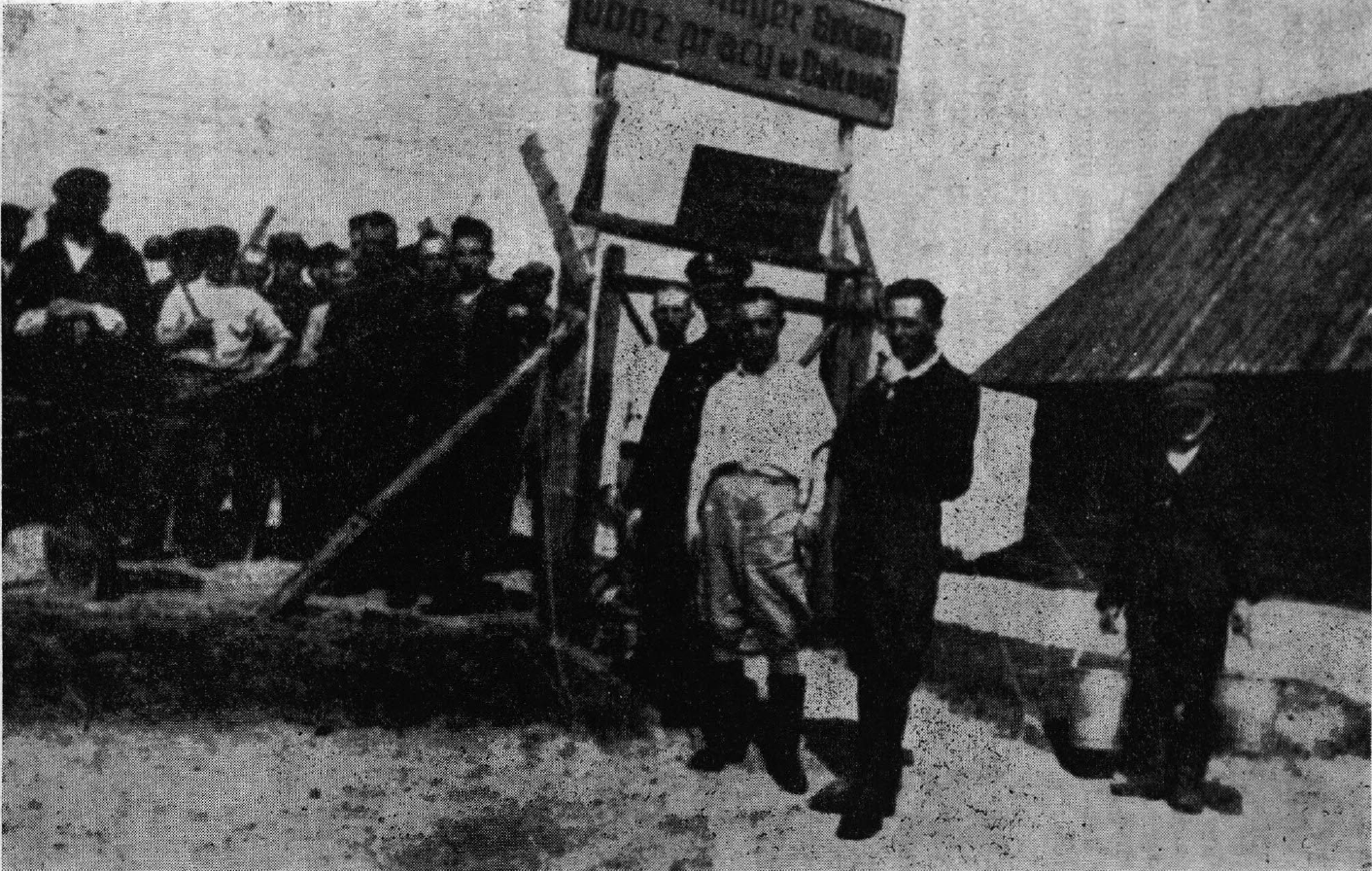 Labor camp in Bukowa, Lublin (date unknown)